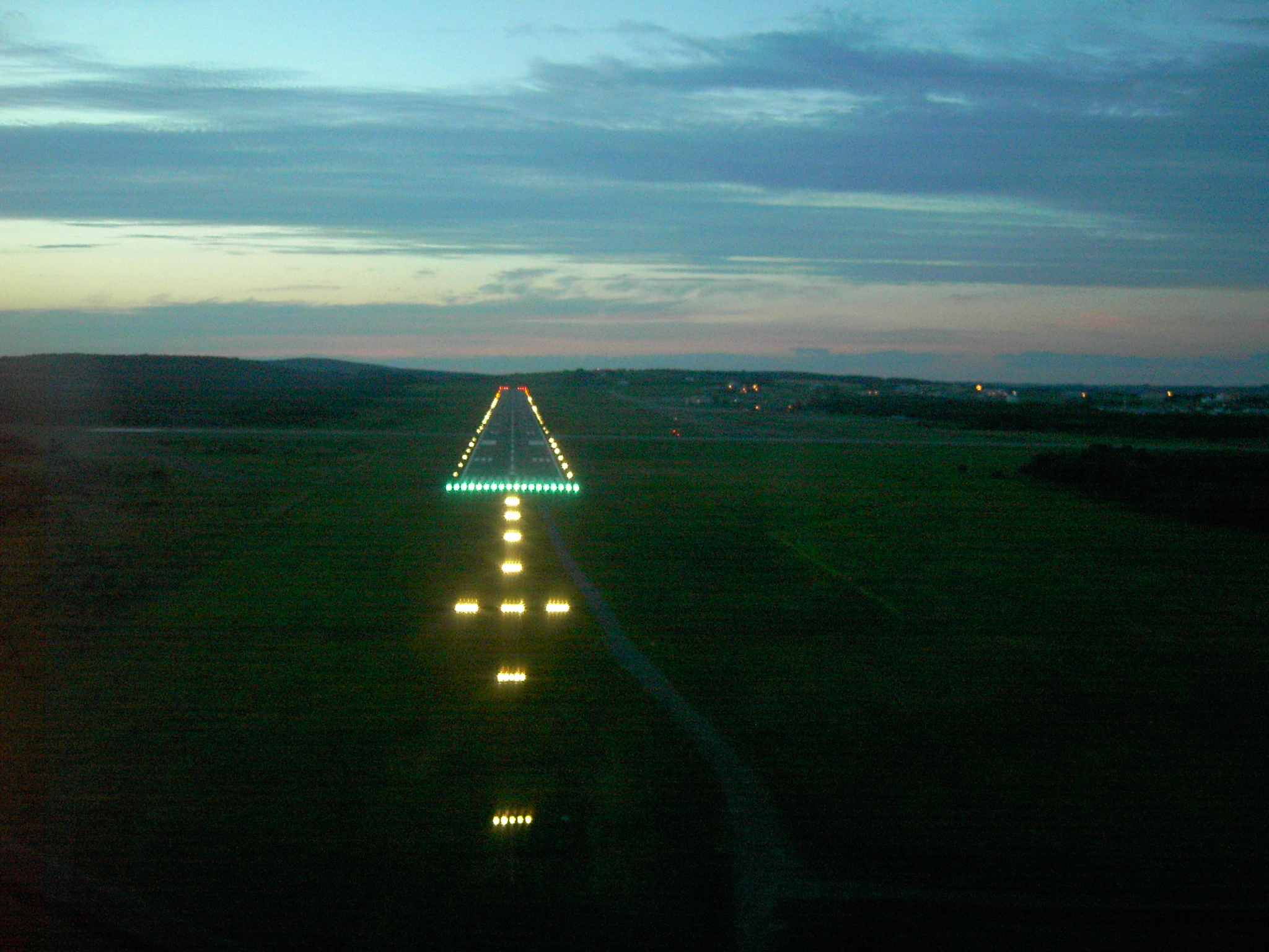 Landing runway 1 at PQI Photo by: rubyk